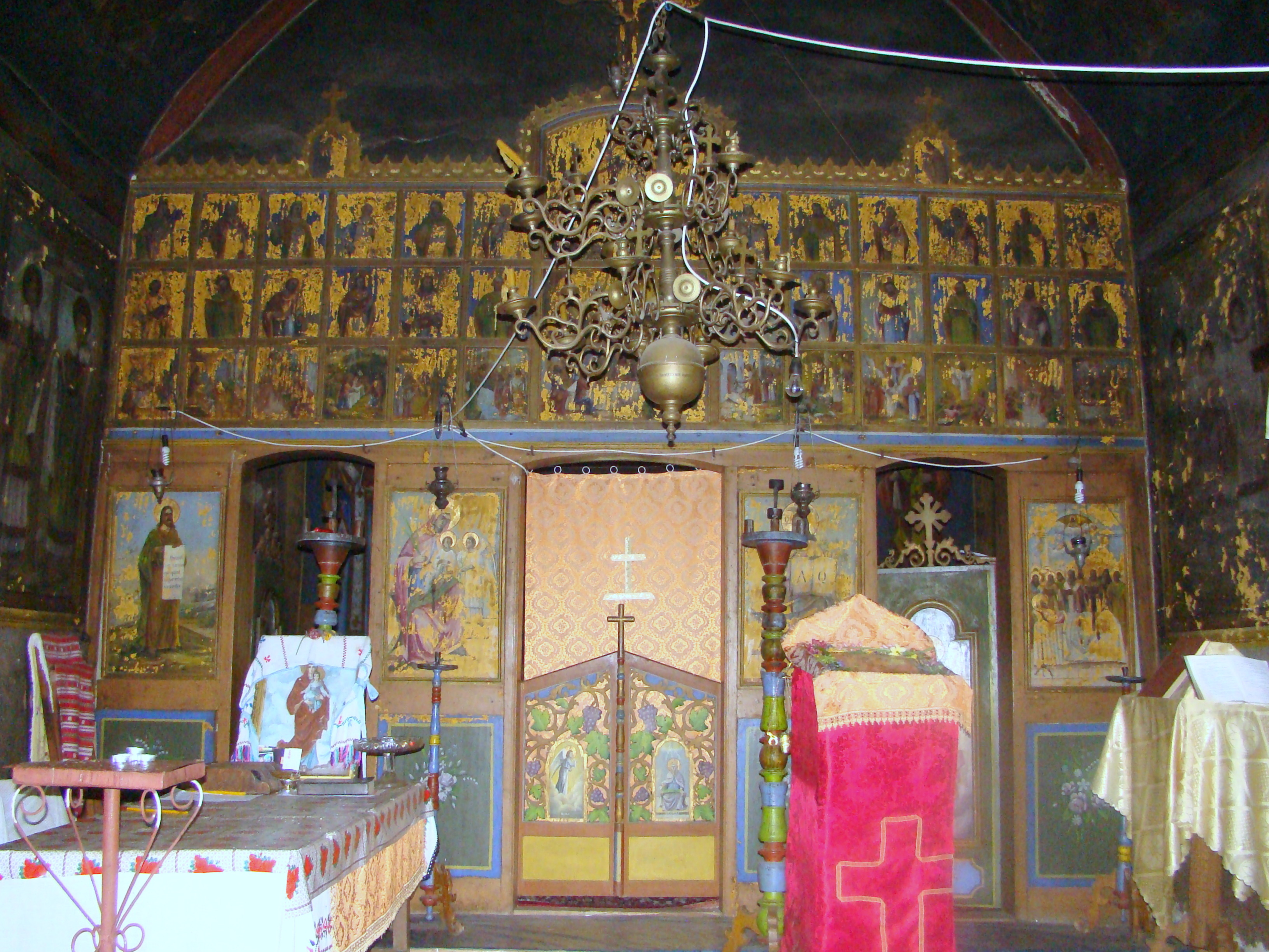 Church of the Dormition in Lupoița, Gorj county, Romania